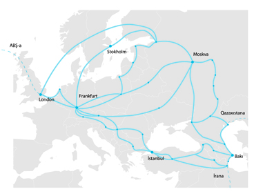 international network of company